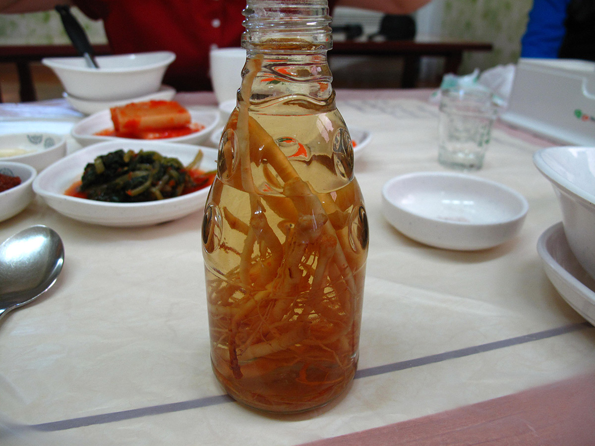 Ginseng Alcohol (인삼주), in Poongi, Korea